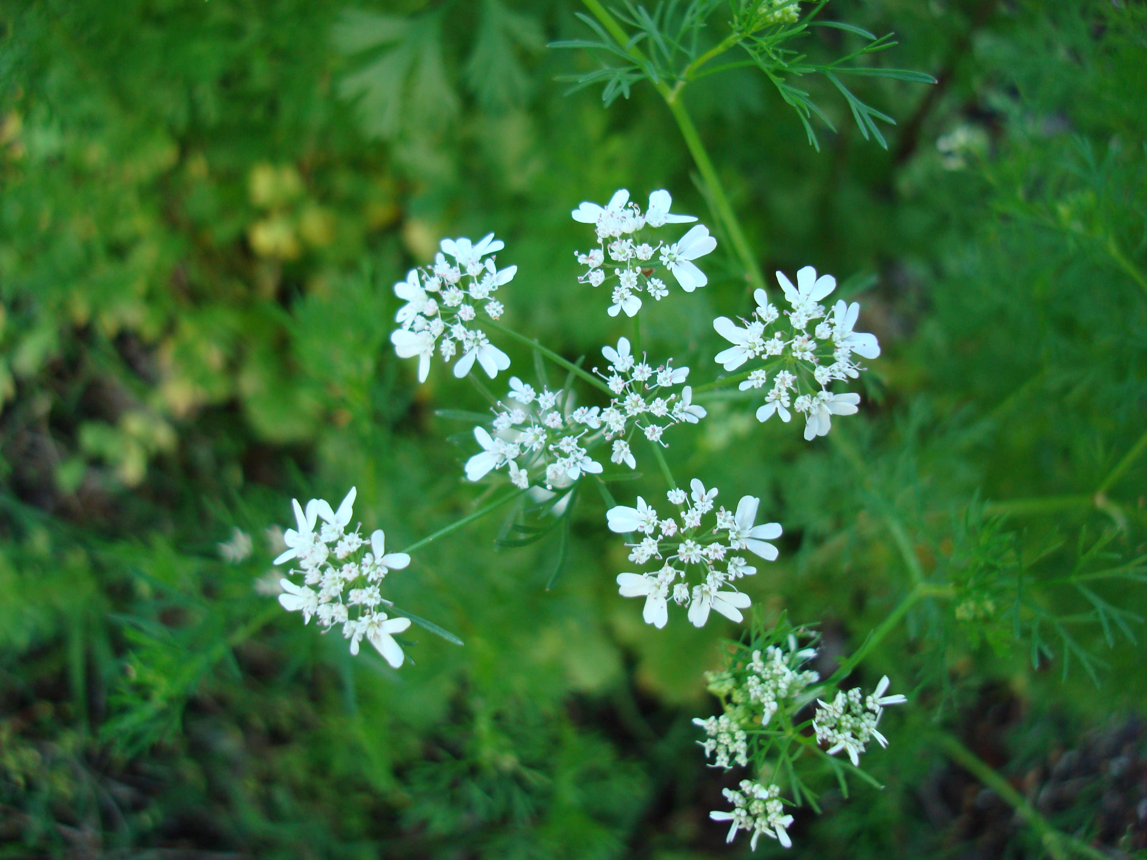 Coriandrum sativum blossoms, Virginia Beach, VA, USA